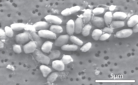 GFAJ-1 grown on arsenic.